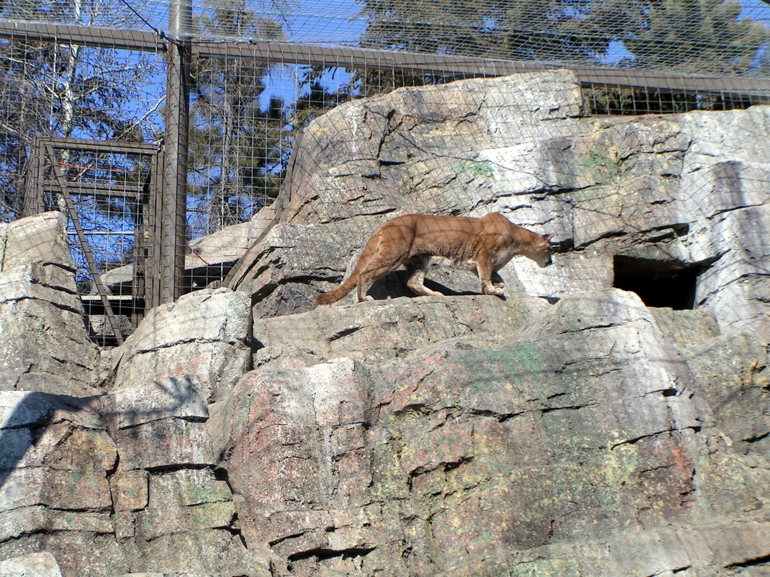 Calgary Zoo, RockyMountains habitat with Cougar